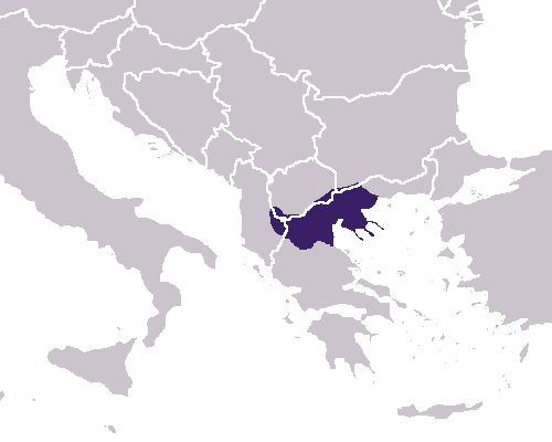 Area of Ancient Macedon